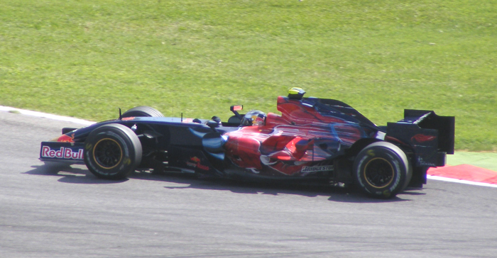 Vettel at the 2007 Italian GP